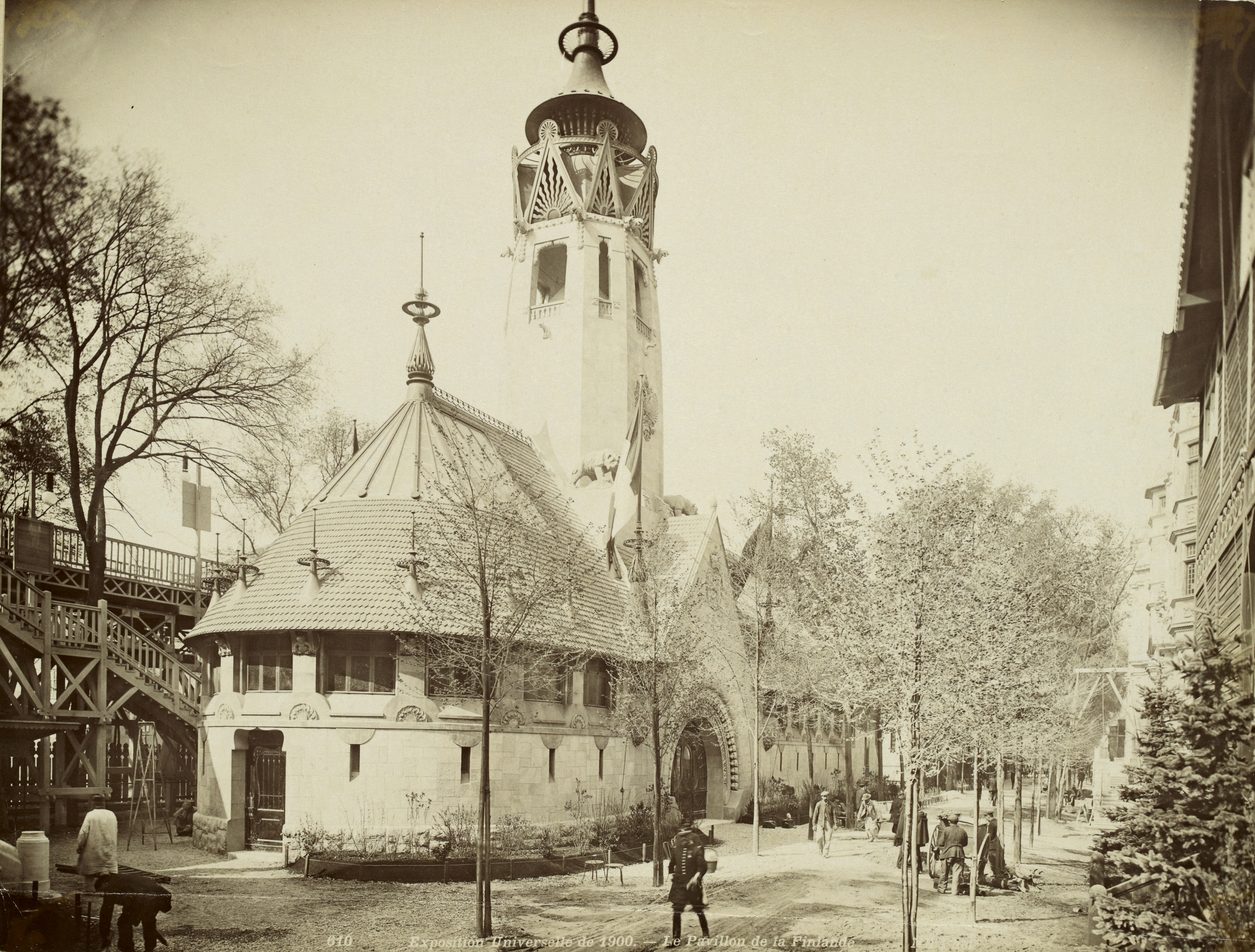 Finnish pavilion by Geselius, Lindgren, Saarinen at the 1900 Paris Exposition.